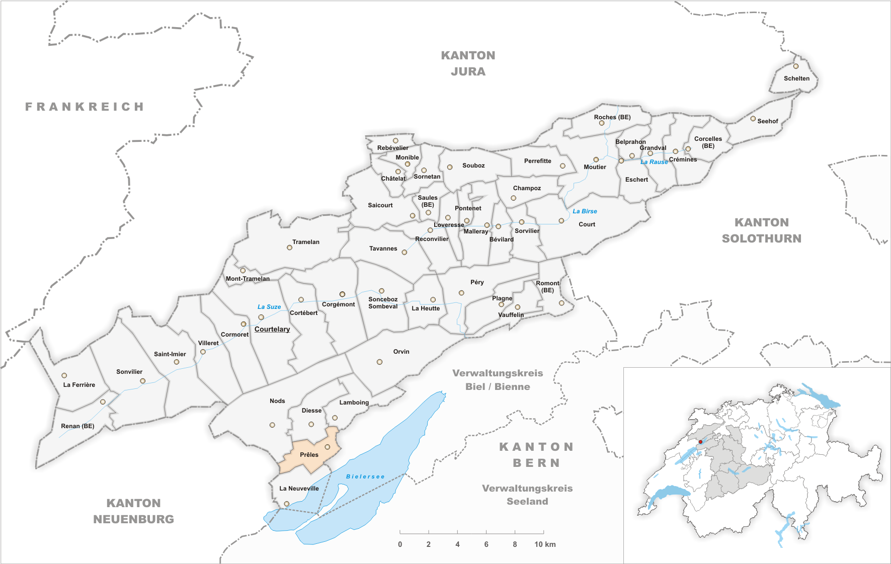 Municipality Prêles